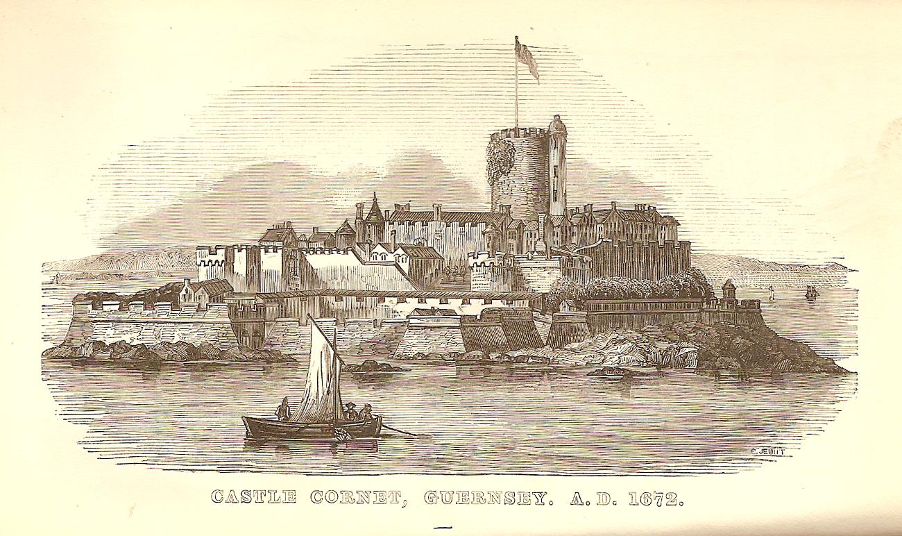 Castle Cornet, Guernsey, AD 1672 Engraving Source: Tupper, Ferdinand Brock, Chronicles of Castle Cornet, (en:1851) Scanned by User:Sgfoote 3 February 2006